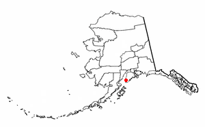 Adapted from Wikipedia's AK borough maps by Seth Ilys.